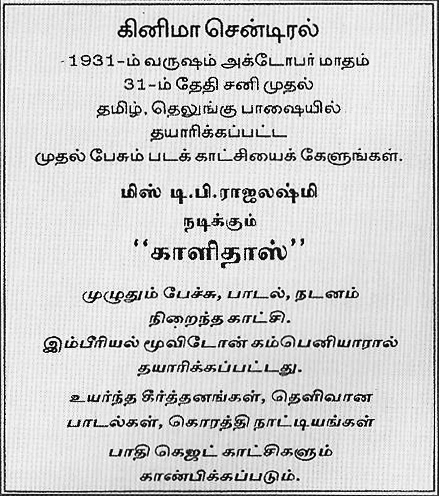 This is an advertisement for the first Tamil talking film Kalidas (1931).